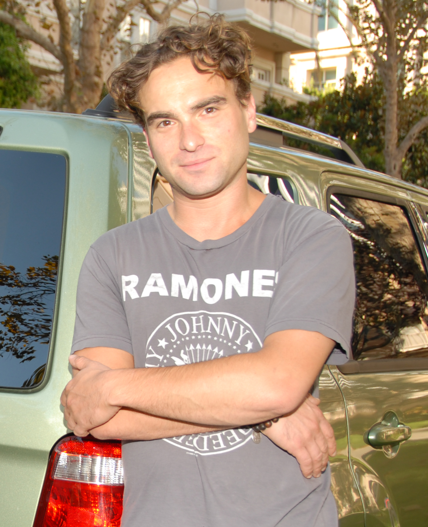 American actor Johnny Galecki at the Ford and project7ten Sustainable/Green Home opening party. Photo released by the Ford Motor Company.